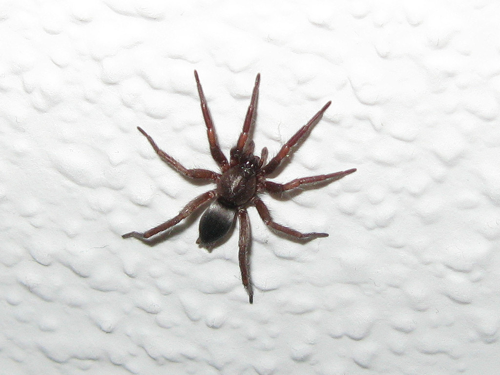 500px provided description: Spider [#macro ,#spider ,#spinne ,#Arachnid]